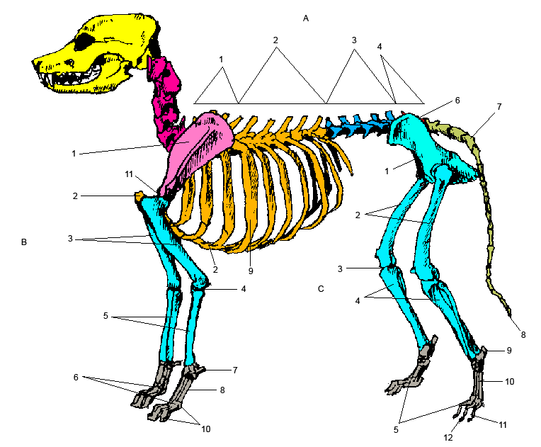 Dog skelton, body section with numbers